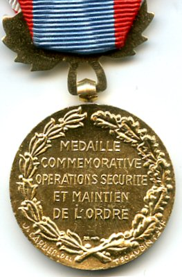 Nord African Security and Order Operations Commemorative Medal (France) - Reverse